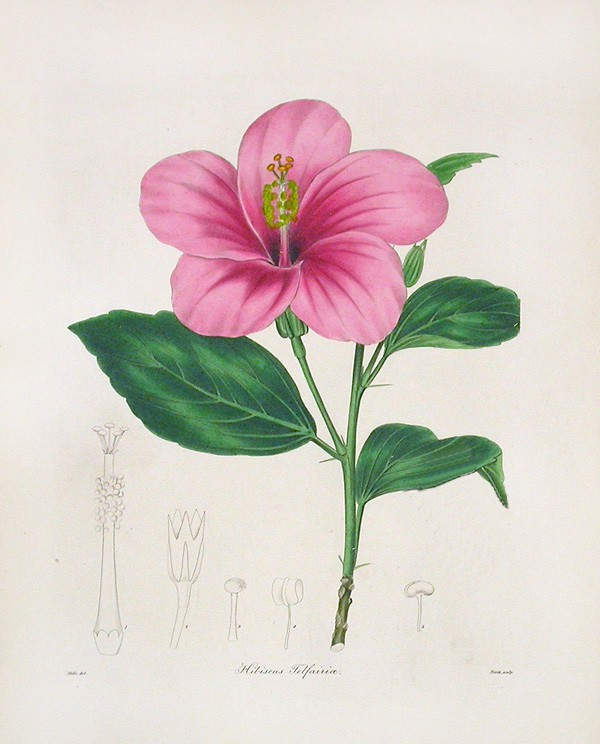 "Hibiscus telfairiae" or Mrs. Telfairs Hibiscus = A hybrid of Hibiscus liliiflorus Cav. x Hibiscus rosa-sinensis L., according to [1]